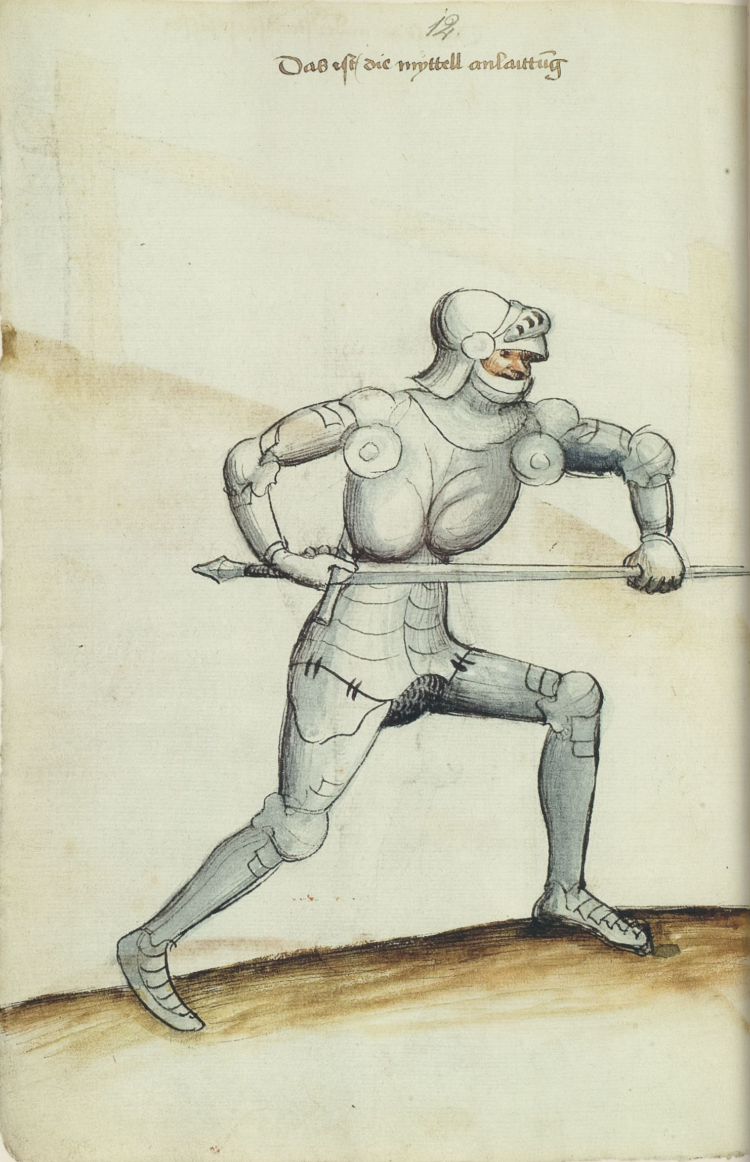 The Ms.XIX.17-3 is a German fencing manual created by Hans Talhoffer some time between 1446 and the creation of the Thott manuscript in 1459. The original currently rests in the private collection of the Königsegg-Aulendorf family in Königseggwald, Germany. This manuscript may possibly have been commissioned by the very Luithold von Königsegg who is featured in several of Talhoffer's works.